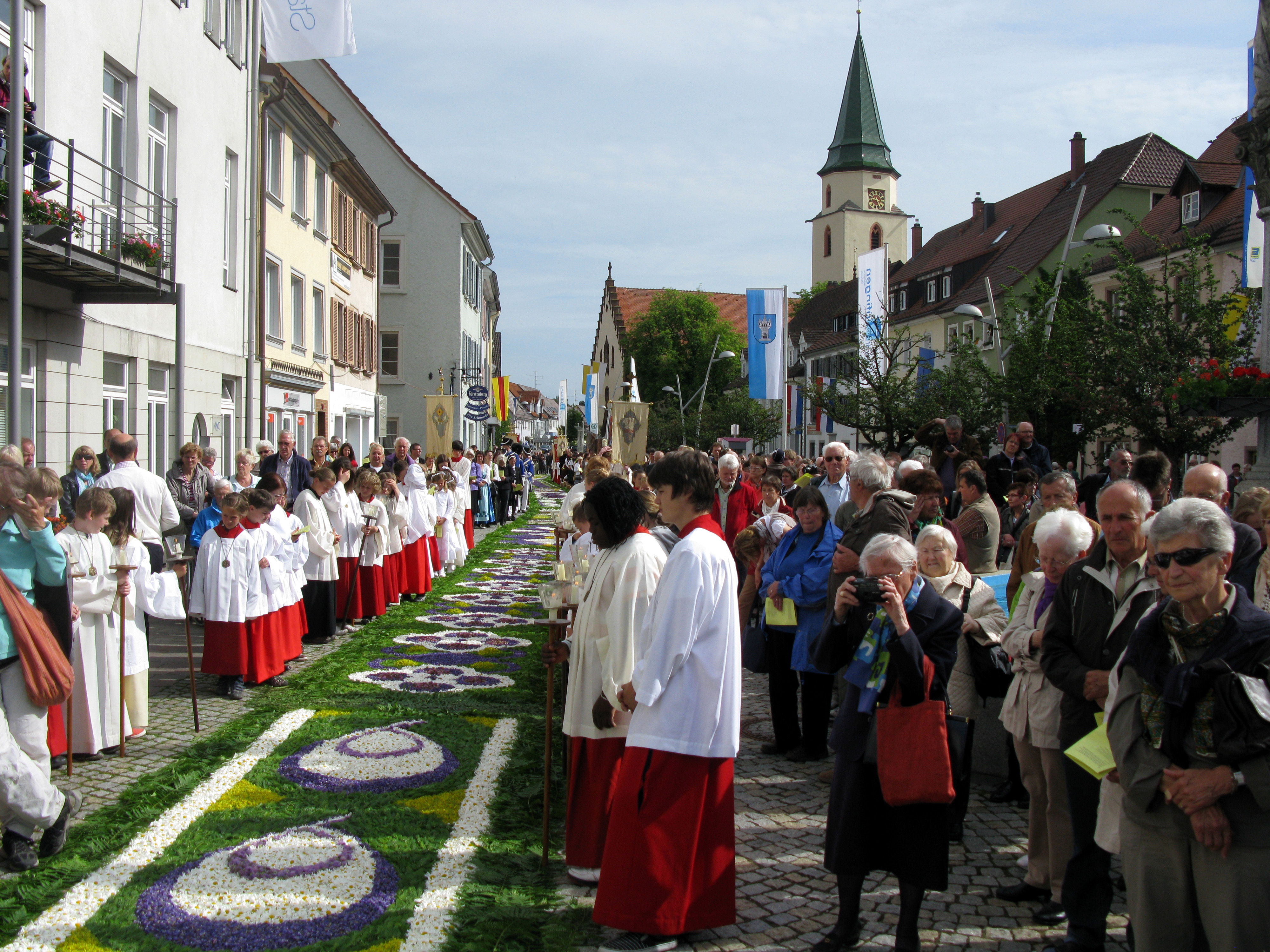 Fronleichnam at Hüfingen